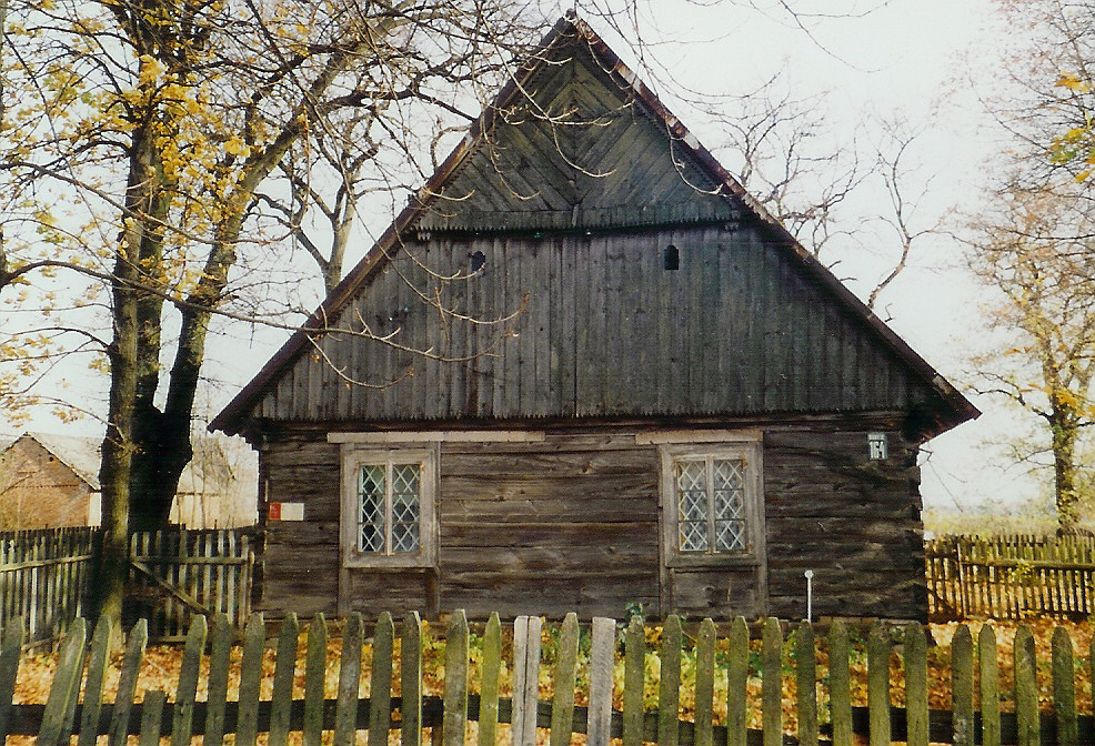 The White Kurpie house in Obryte